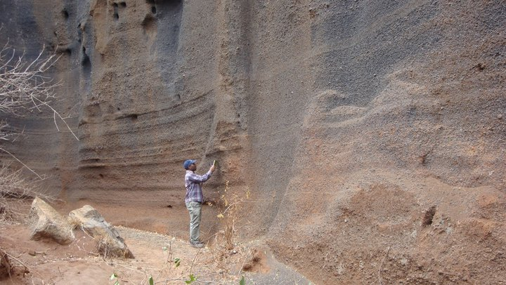 Dalaly Kafumu examining a geological section at Holili in Tanzania for a research in global paleoclimatic reconstructions.